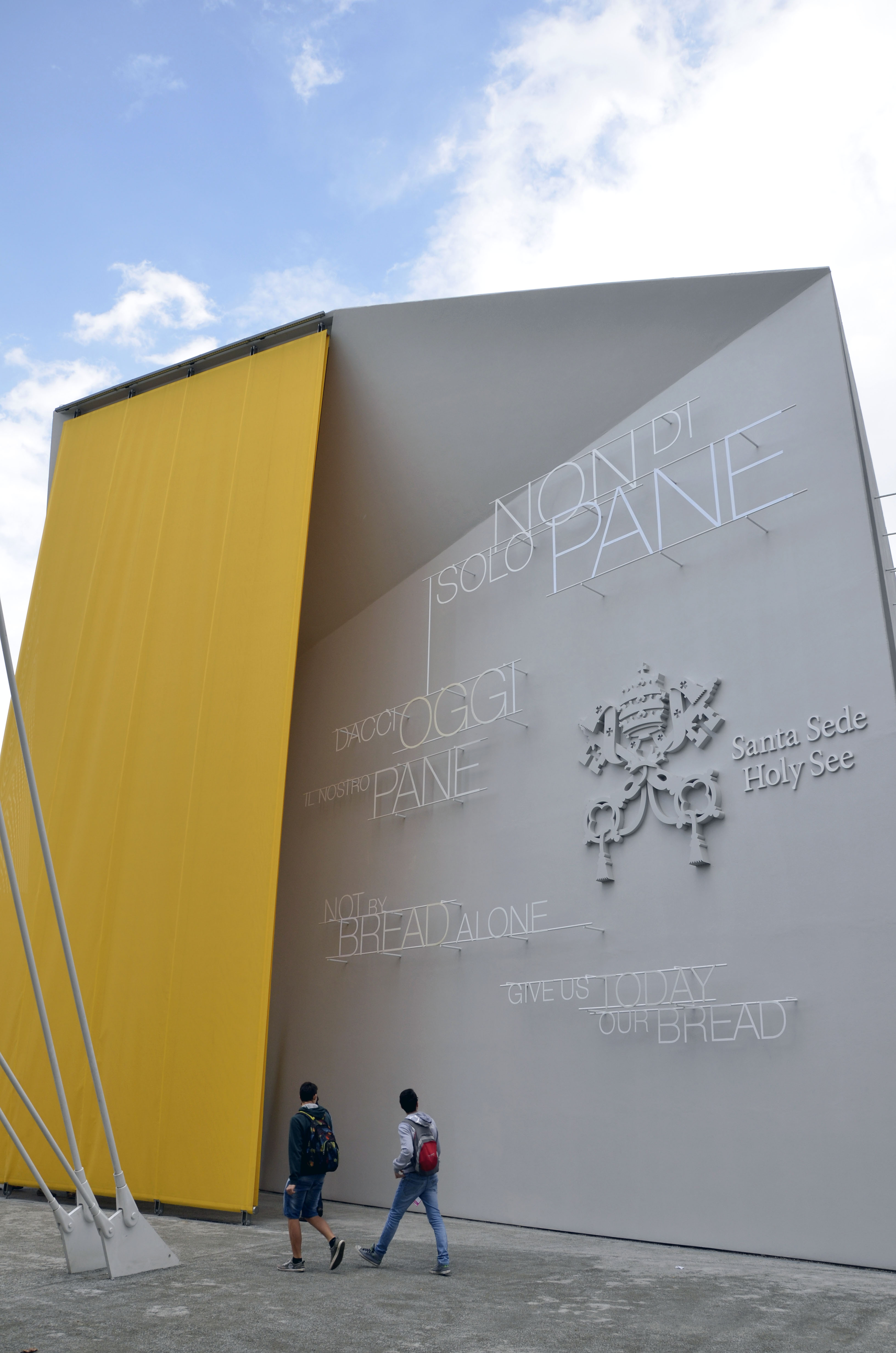 Holy See Pavilion at Expo Milano 2015